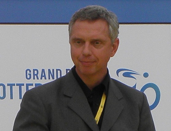 Dutch cycler Jean-Paul van Poppel in 2010